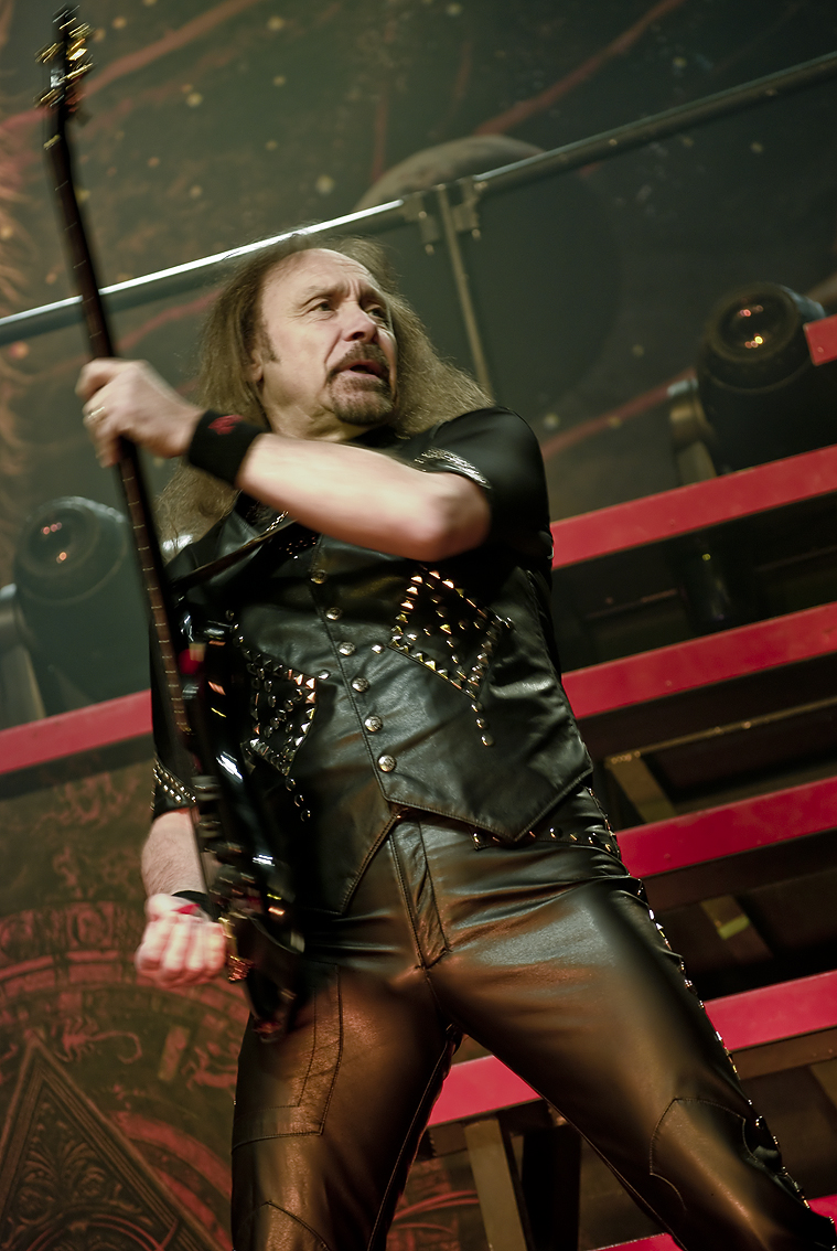 Ian Hill - founding member and bassist for the British heavy metal band Judas Priest.